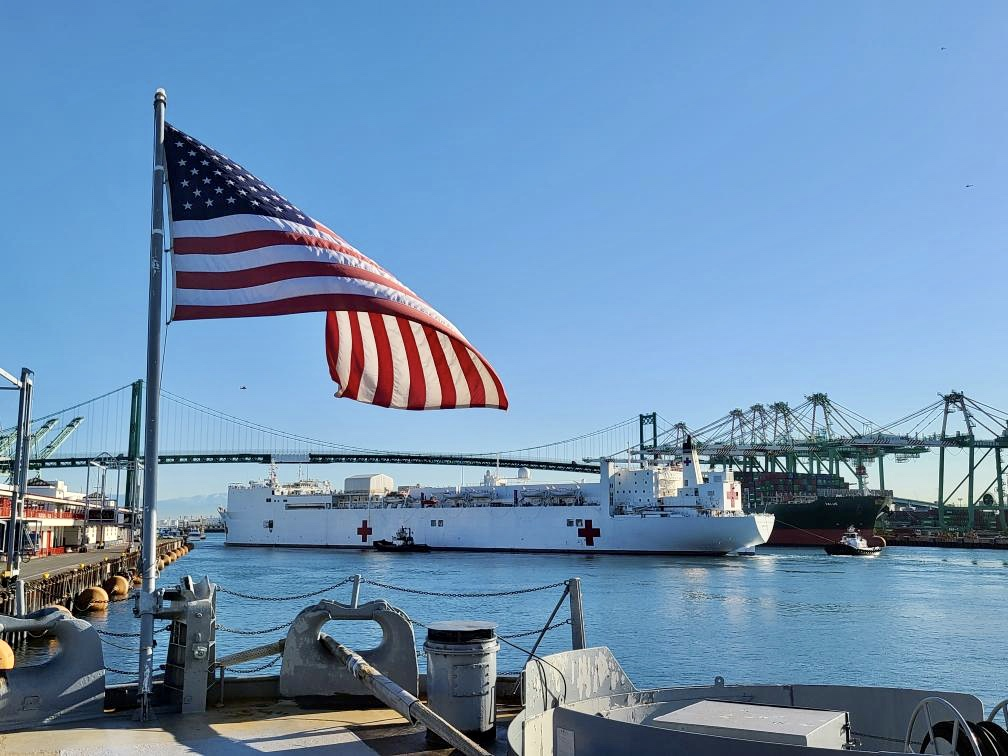 200327-N-NO101-150LOS ANGELES (March 27, 2020) The Military Sealift Command hospital ship USNS Mercy (T-AH 20) arrives in Los Angeles, Calif., March 27, 2020). Mercy deployed in support of the nation's COVID-19 response efforts, and will serve as a referral hospital for non-COVID-19 patients currently admitted to shore-based hospitals. This allows shore base hospitals to focus their efforts on COVID-19 cases. One of the Department of Defense's missions is Defense Support of Civil Authorities. DoD is supporting the Federal Emergency Management Agency, the lead federal agency, as well as state, local and public health authorities in helping protect the health and safety of the American people. (U.S. Navy photo/Released)